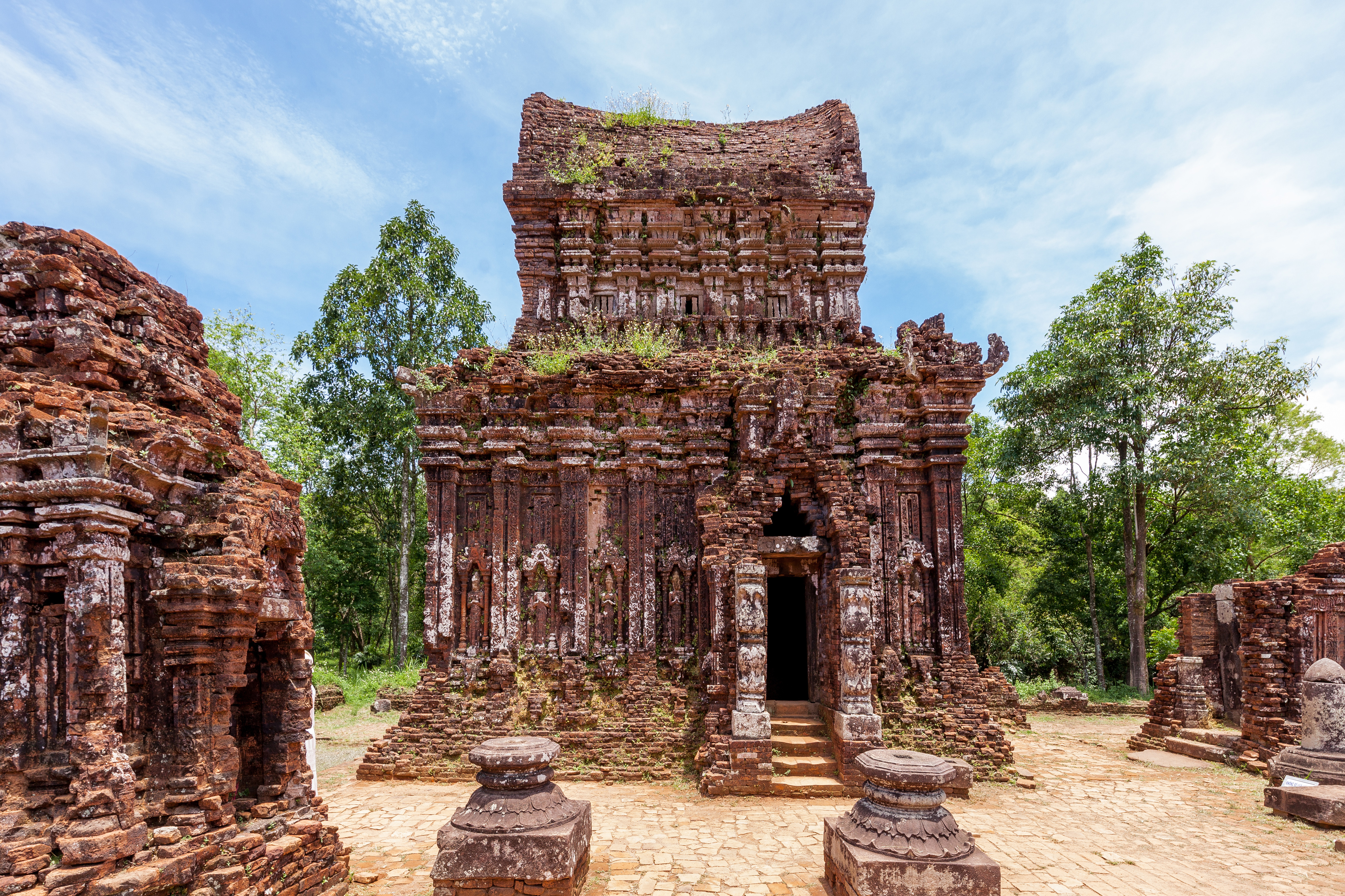 Mỹ Sơn is a cluster of abandoned and partially ruined Hindu temples in Quảng Nam province, central Vietnam, constructed between the 4th and the 14th century by the Kings of Champa, an Indianized kingdom of the Cham people. The temples are dedicated to the worship of the god Shiva, known under various local names, the most important of which is Bhadreshvara. This image is a storehouse known as "B5", an outstanding surviving exemplar of the My Son A1 style.